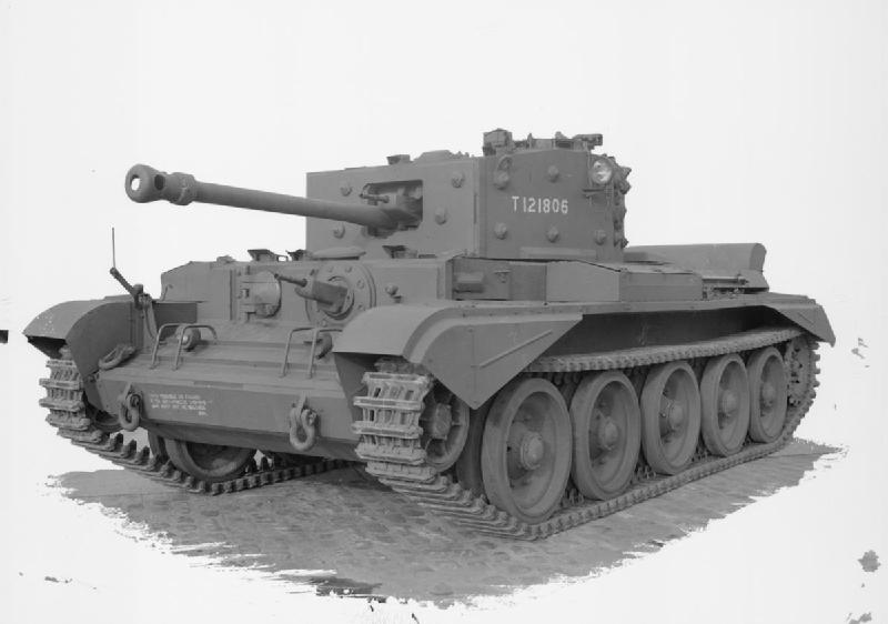 Tanks and Afvs of the British Army 1939-45 Cruiser Mk VIII Cromwell VIIw (A27M)